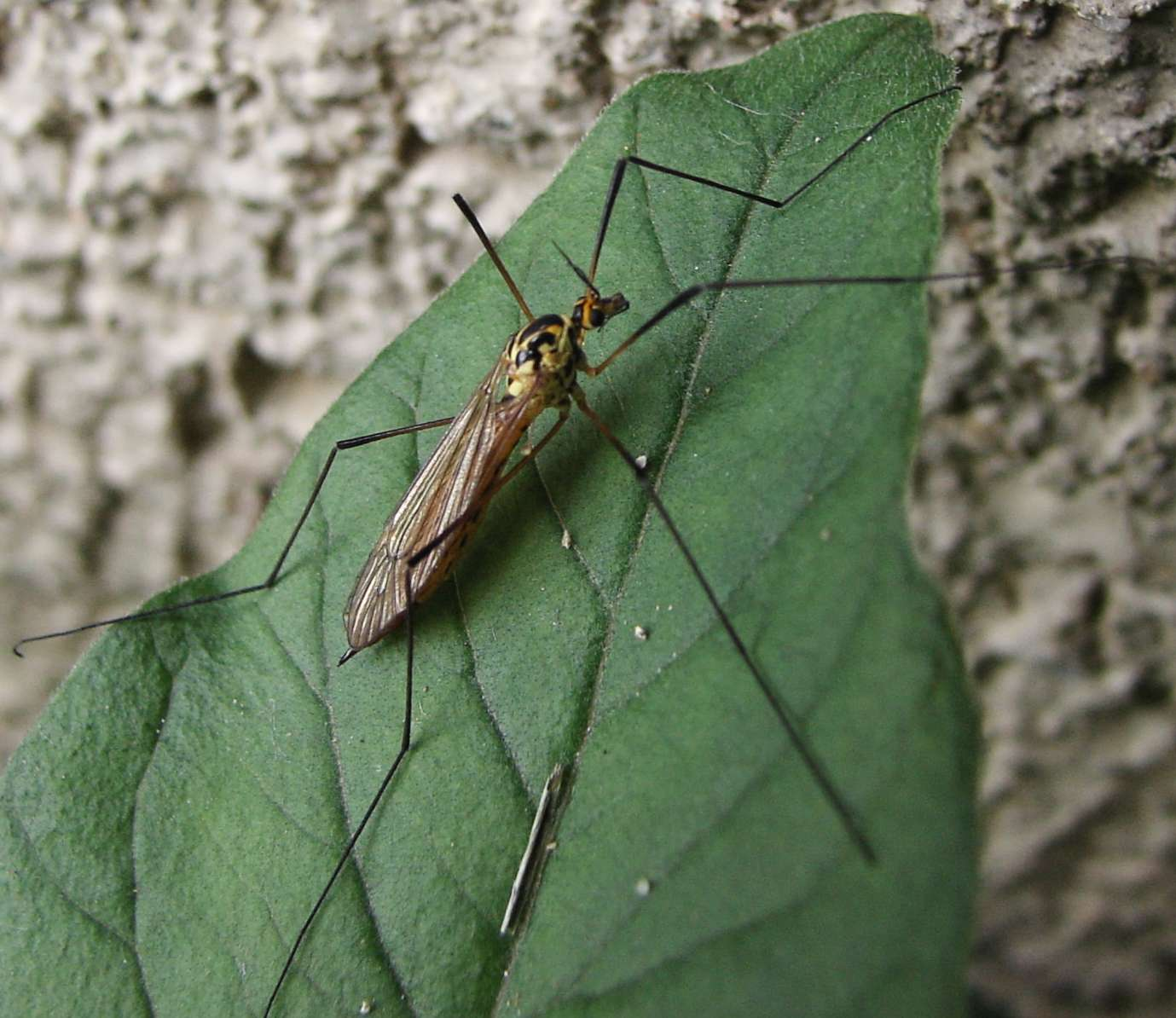 Nephrotoma appendiculata (Spotted cranefly) in Nettersheim, Germany